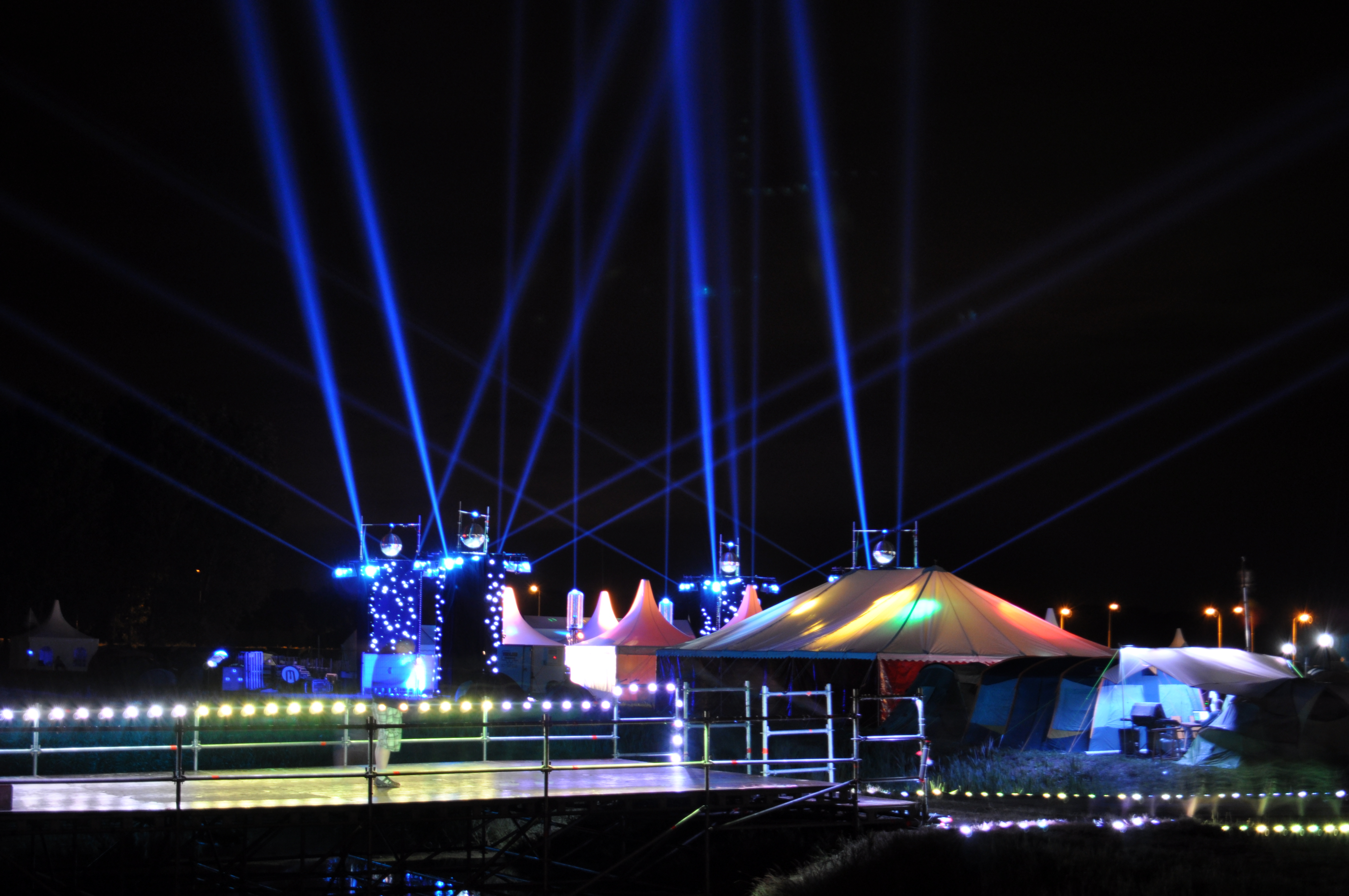 The Belgian Hackerspaces Village (red tent) & Area42 at night on OHM2013